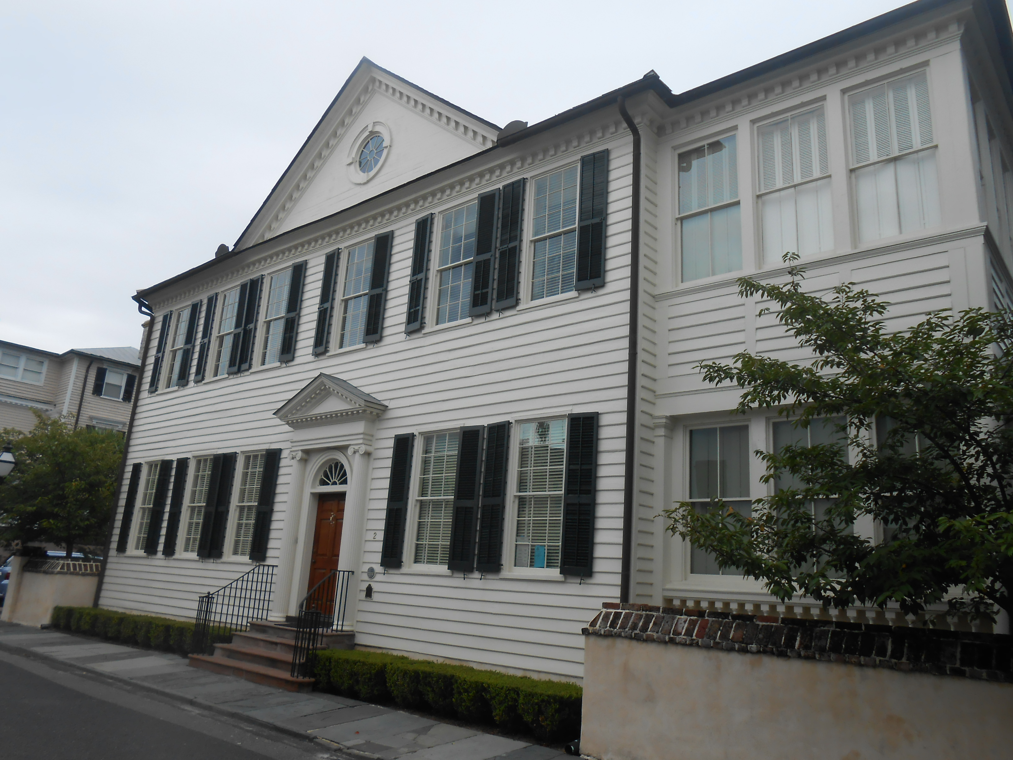 The John Drayton House, located at 2 Ladson St., Charleston, South Carolina, was built by the builder of nearby Drayton Hall Plantation sometime after 1746.